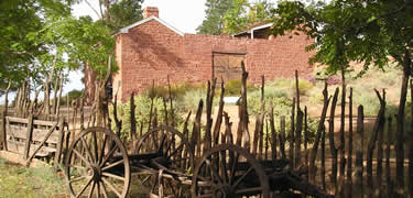 Winsor Castle, Pipe Spring National Monument, Arizona